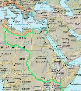 Map of the Fascist Project of an enlarged Italian Empire after the "dreamed" victory of the Axis in WWII. Mussolini in 1941/1942 hoped to get - from a future peace conference - an enlarged Italian Empire in Africa (shown within the green lines and points) with the annexation of Egypt, Sudan, British Somaliland, Djibouti and sections of eastern Kenya.